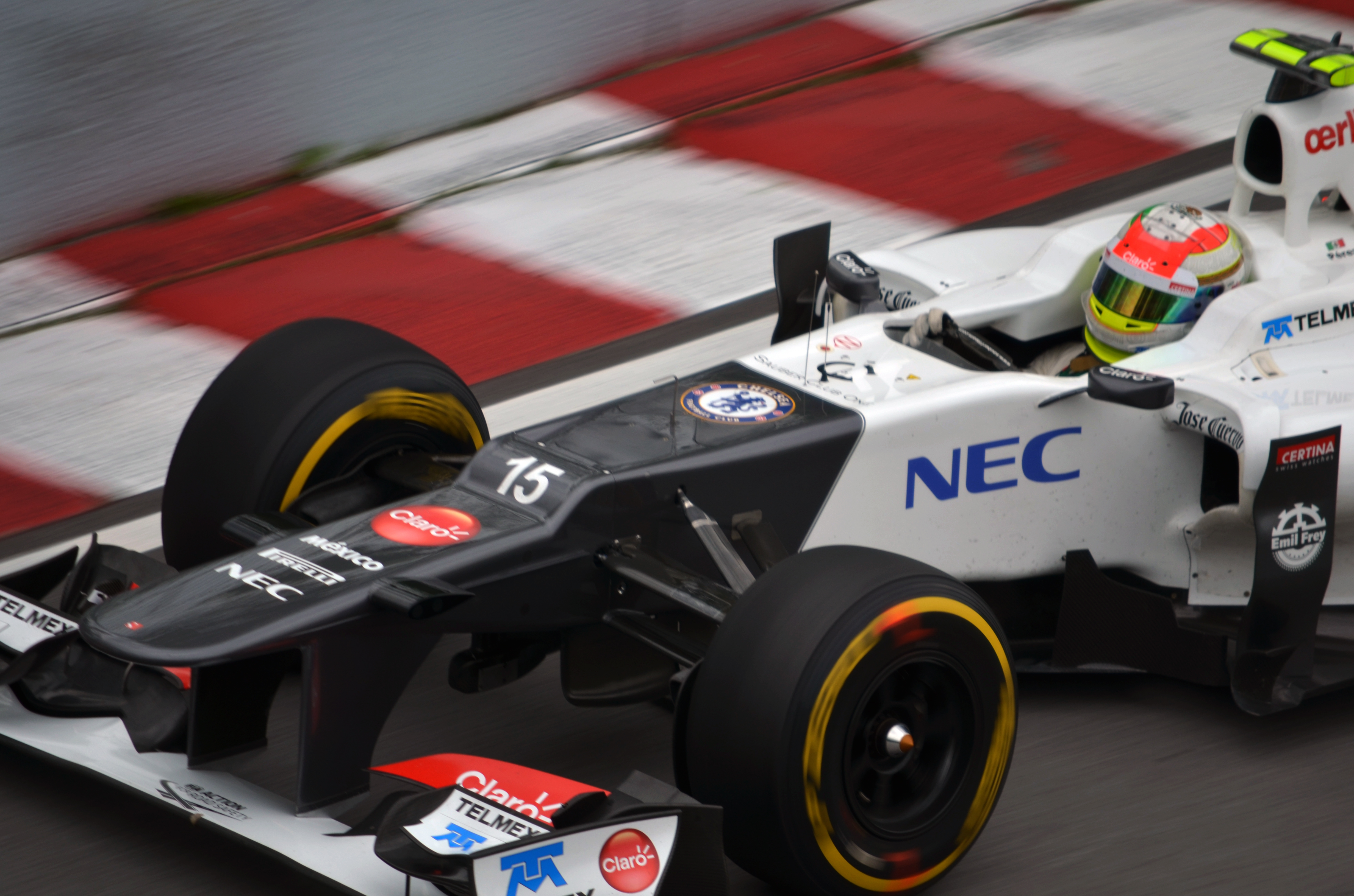 Close up of Sergio Perez in the Sauber - Ferrari C31 as he exits turn 9 at Circuit Gilles Villeneuve during first practice for the 2012 Canadian Grand Prix.